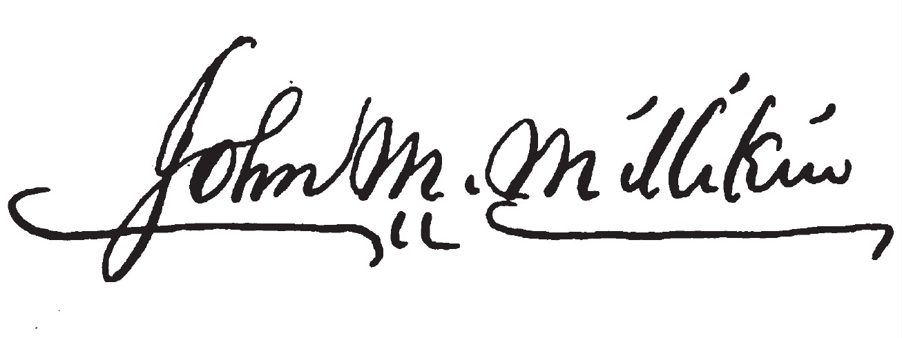 John M. Millikin.